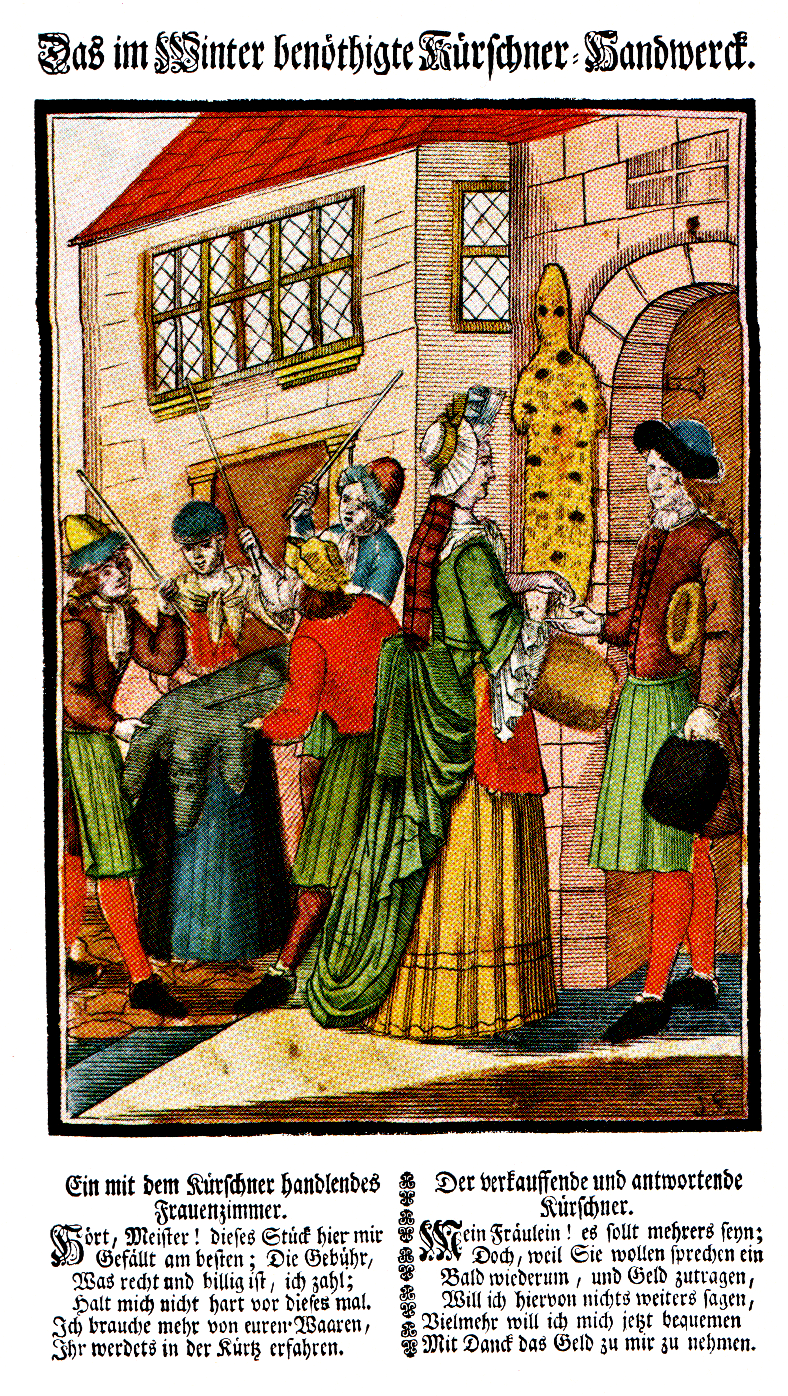 The Furrier and the customer, German